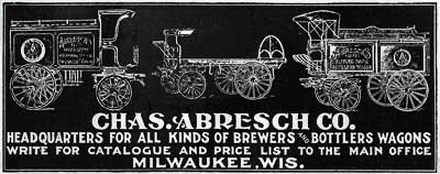 1903 advertisement for horse-drawn vehicles; Charles Abresch Co., Milwaukee, Wisc.